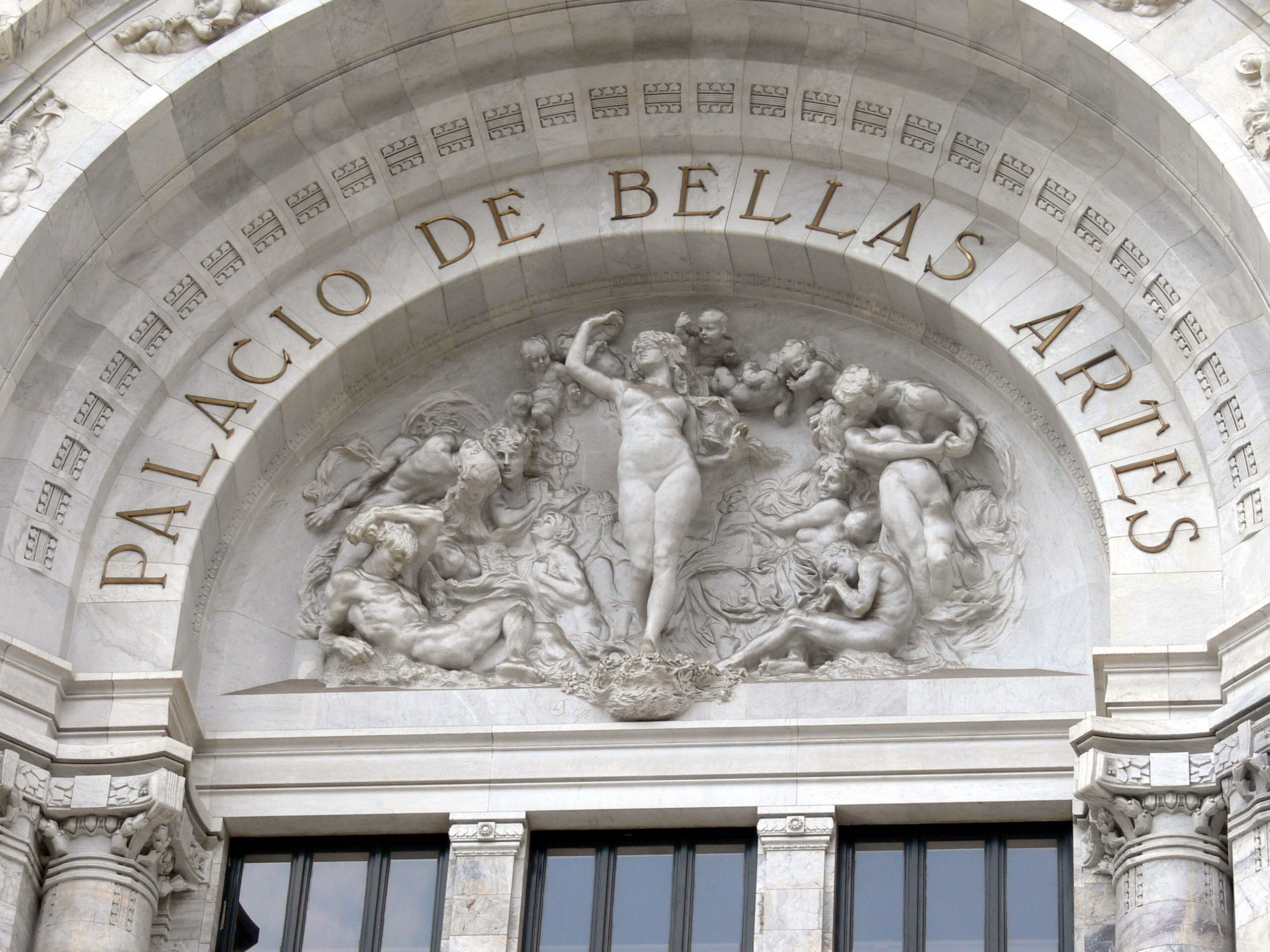 Mexico City. Palacio de Bellas Artes ( 1910 ): La armonía (Harmony), Leonardo Bistolfi.